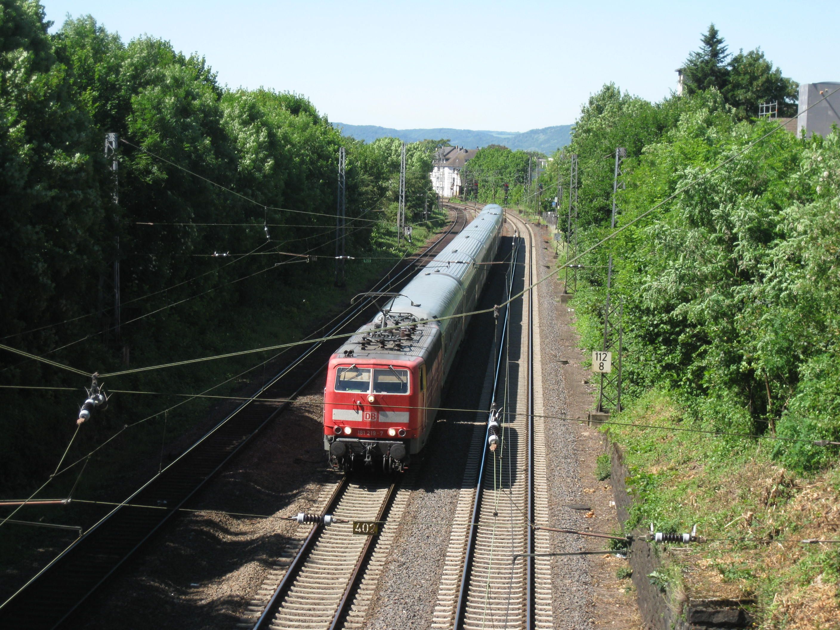 The InterCity 135 Luxembourg-Norddeich Mole in Trier, Germany, shortly before reaching Trier Central Station. The train is pulled by 181 219-7.